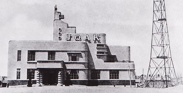 JQAK